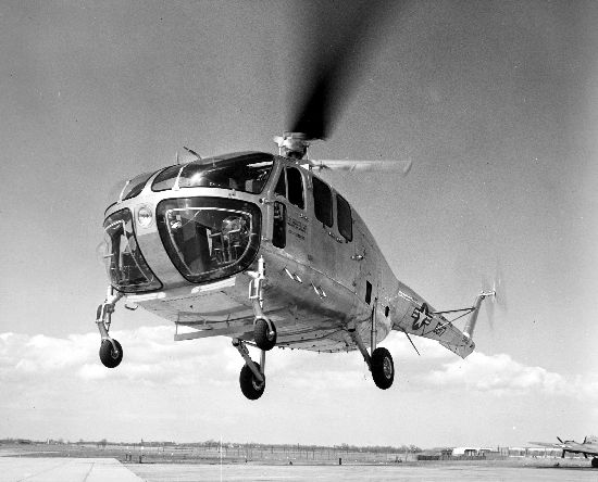 Bell YH-12B (Model 48) helicopter in flight.